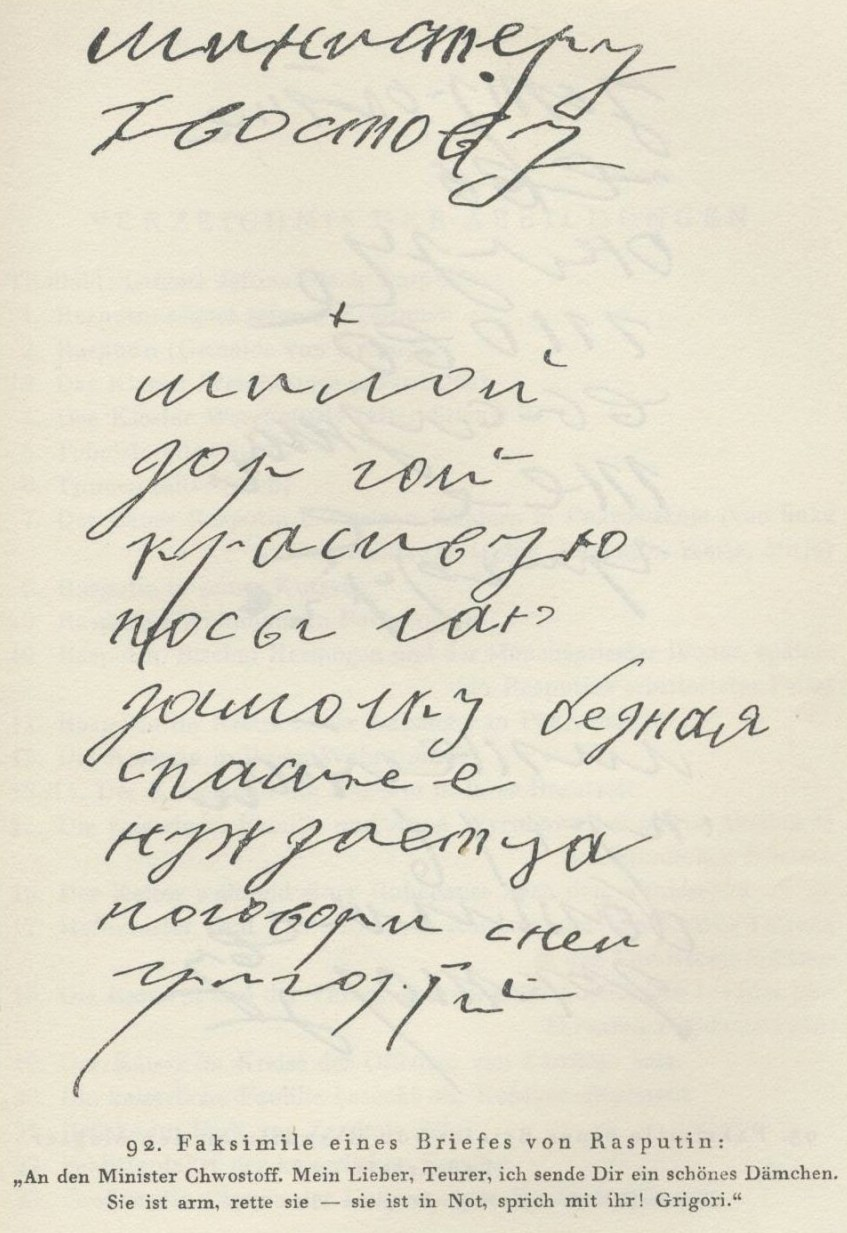 Grigorij Rasputin's note to interior minister of Russia Aleksej Khvostov. Around 1916. "To Minister Khvostov. My dear I send you a poor pretty lady save her she is hard up talk to her."